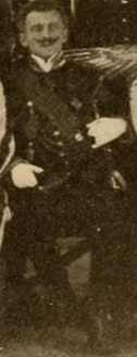 Frank Erlanger, appearing in costume as Victor Emmanuel III of Italy on February 11, 1916 at the Balboa Annual Ball